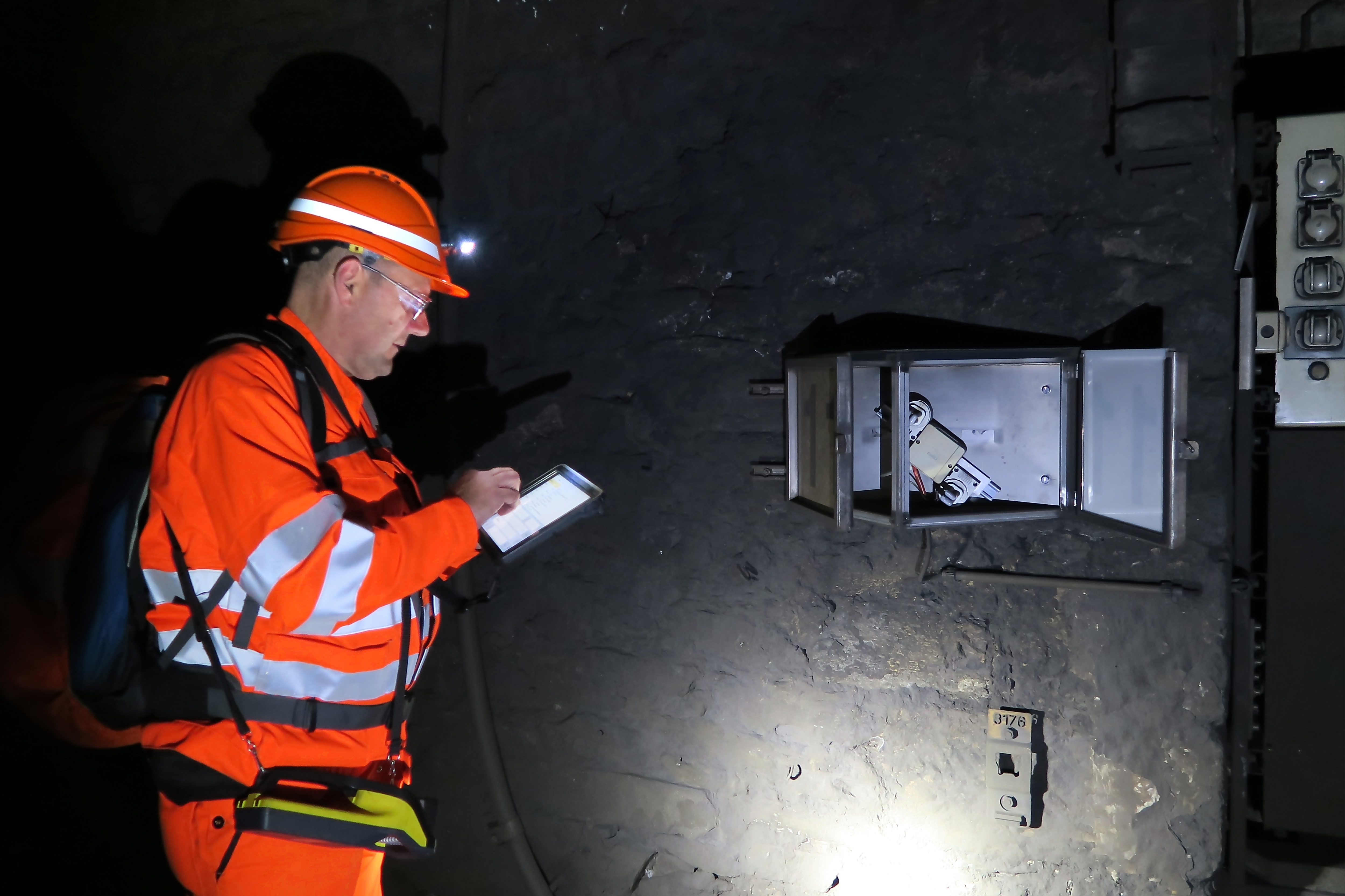 Kilometer mark 11, lamp defective. Richi gathering on his tablet. All straight kilometers are marked on the right side with a white lamp. Switzerland, Oct 12, 2015. (36/49)